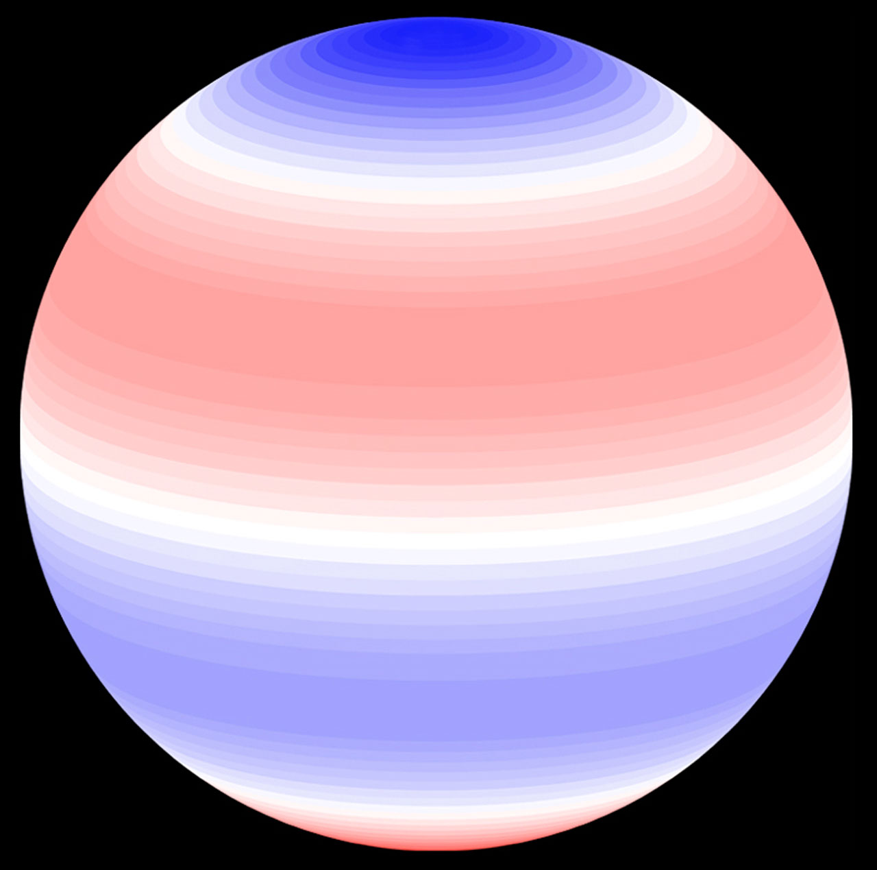 A computer-generated illustration of one possible non-radial oscillation mode in the giant star xi Hya. The blue parts contain particles in the upper stellar atmosphere moving away from the stellar centre, hence they cause a "blue-shift" (towards shorter wavelengths) in the spectrum for the observer. At the same time, particles in the red parts move towards the stellar centre and cause a "red-shift" (towards longer wavelengths). Particles in the white regions do not move during the oscillation cycle. Half an oscillation cycle later, the red parts will have become blue and vice versa.